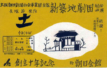 poster of Shin-Tsukiji Gekidan's drama"Tsuchi"